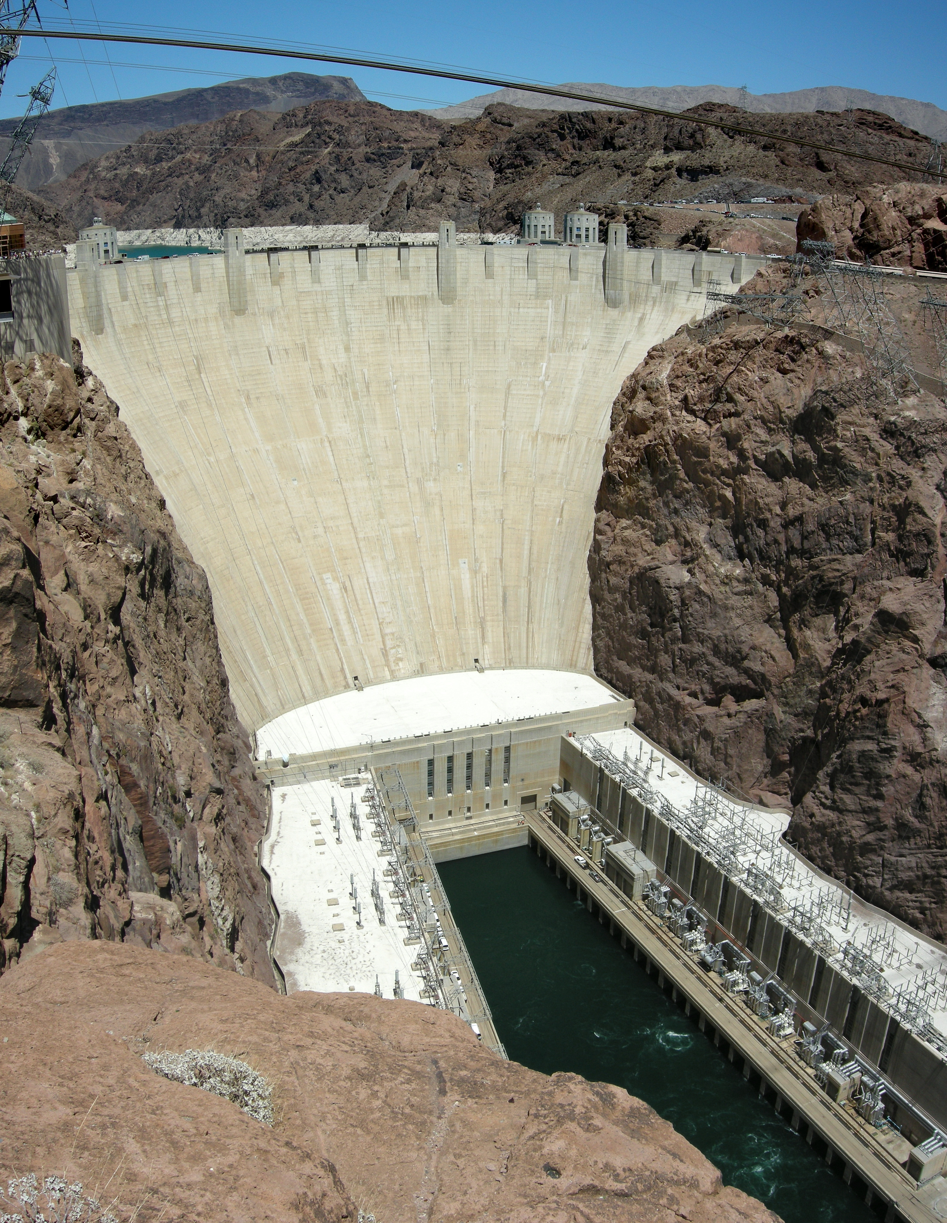 Hoover Dam, also sometimes known as Boulder Dam, is a concrete arch-gravity dam in the Black Canyon of the Colorado River, on the border between the U.S. states of Arizona and Nevada.